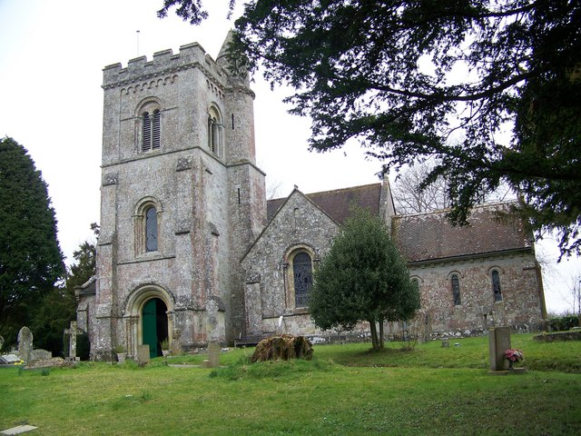 St Peter's Church, Swallowcliffe The Church was built in 1842-43, possibly using some of the stones of the old church. The church took only 13 months to build and was consecrated by the Bishop of Salisbury on 29th August 1843.